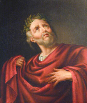 William Charles Macready (1793-1873) as Virginius